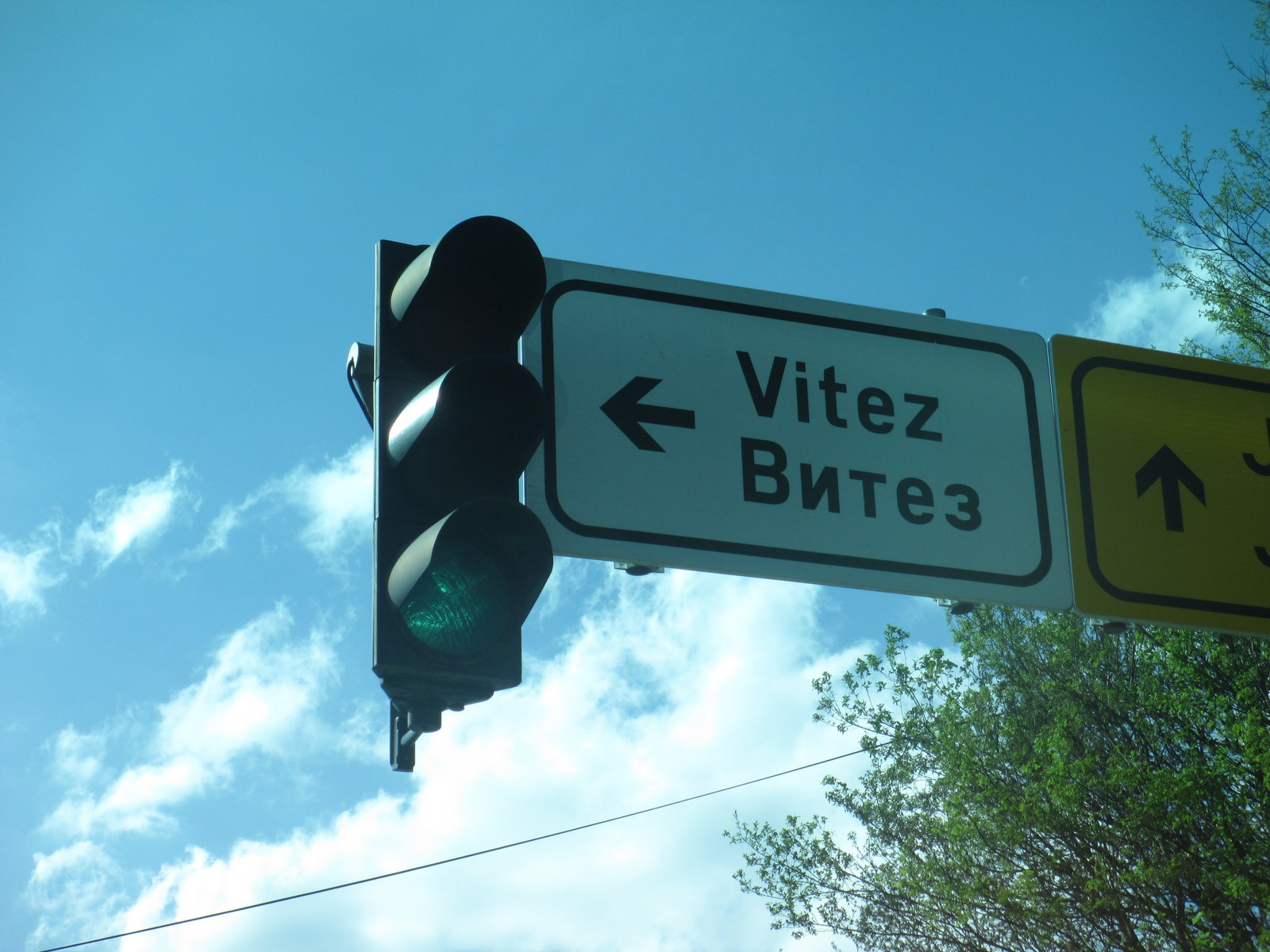 Vitez and surrounding area Central Bosnia